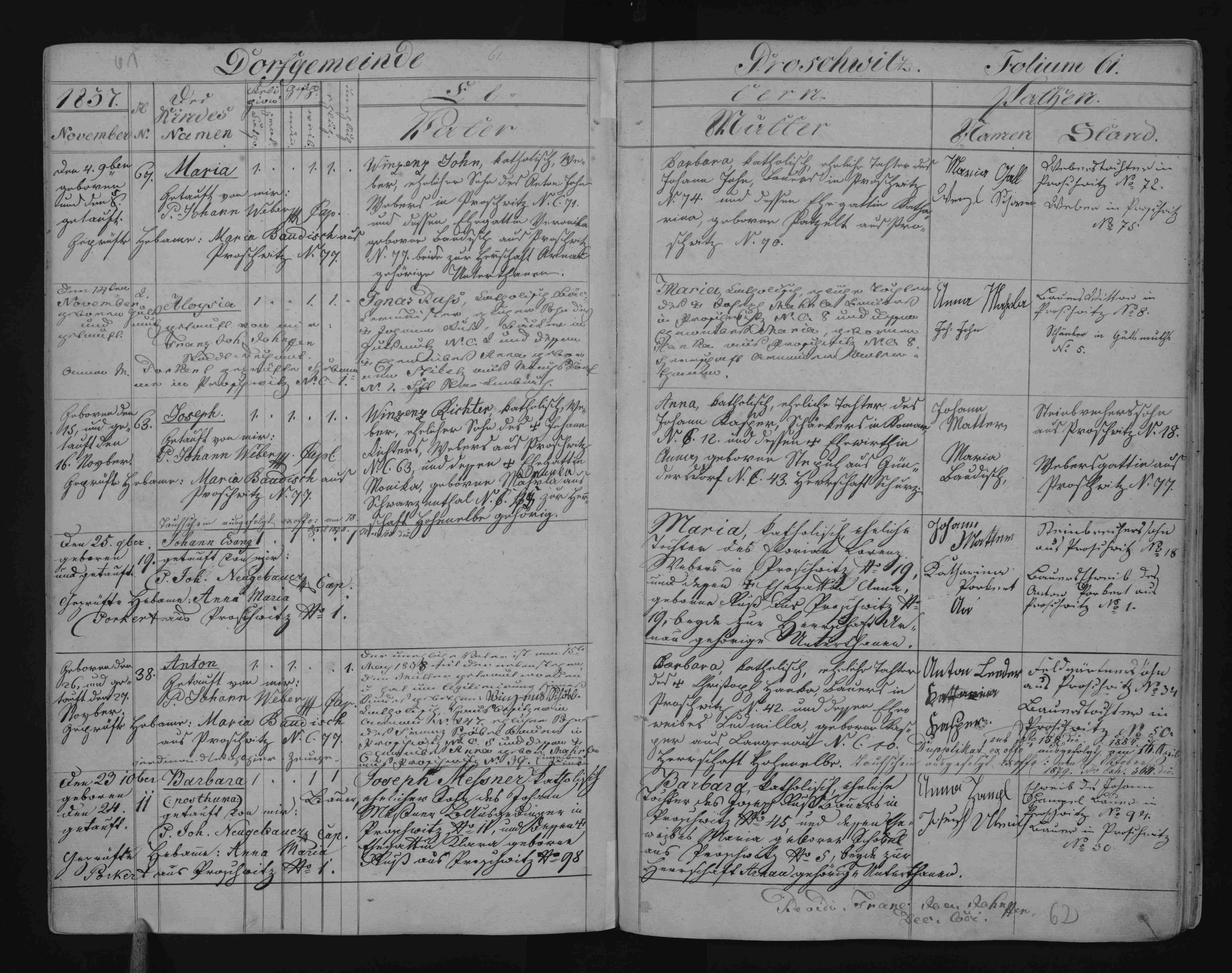 Page from a parish register, recording - among others - the birth of Josef Richter (1837-1901), a farmer and a politician.